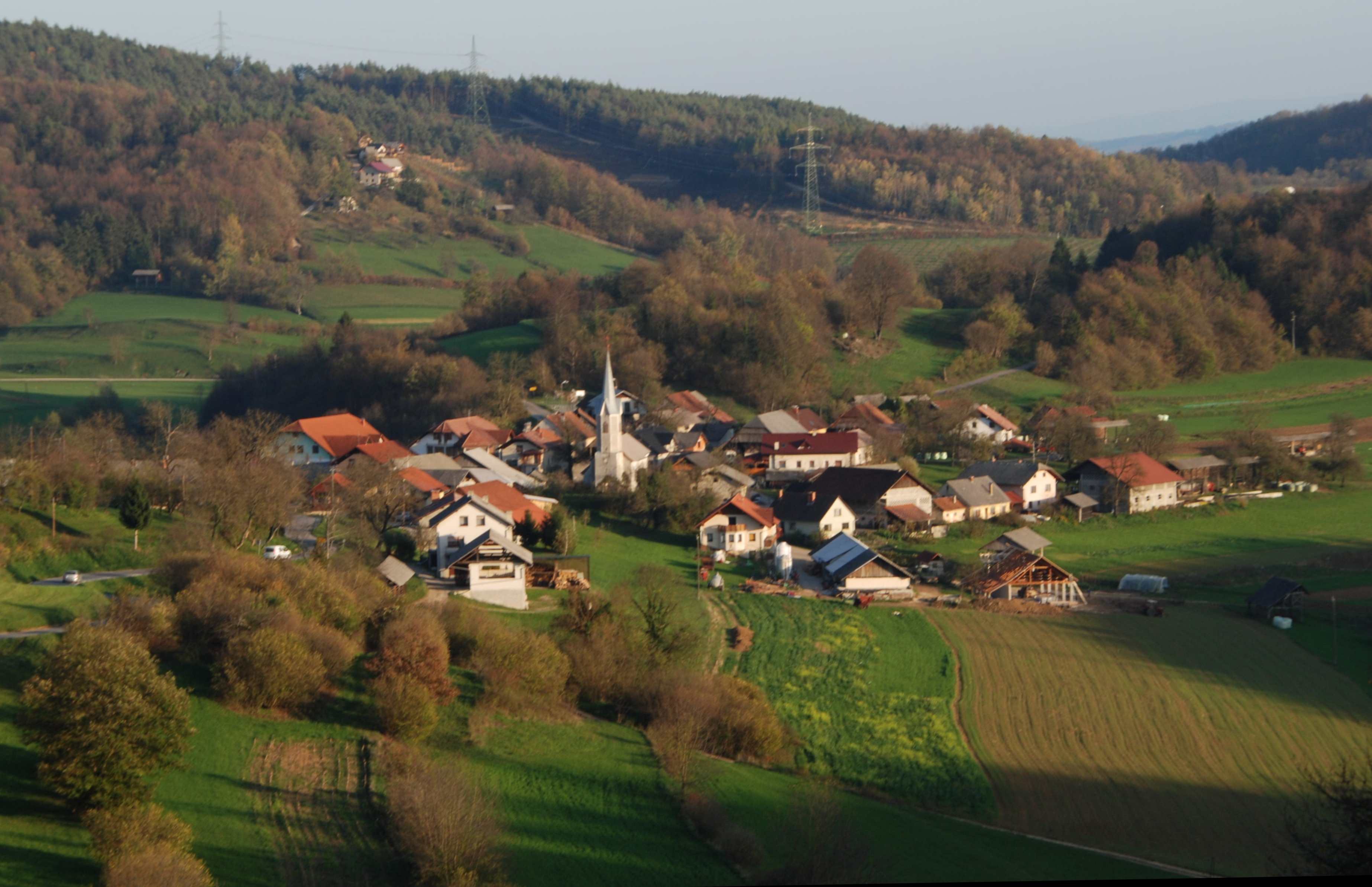 Tihaboj, a village in the Municipality of Litija (central Slovenia); traditional region of Lower Carniola. View from the road leading towards Gabrovka (northwestern view).